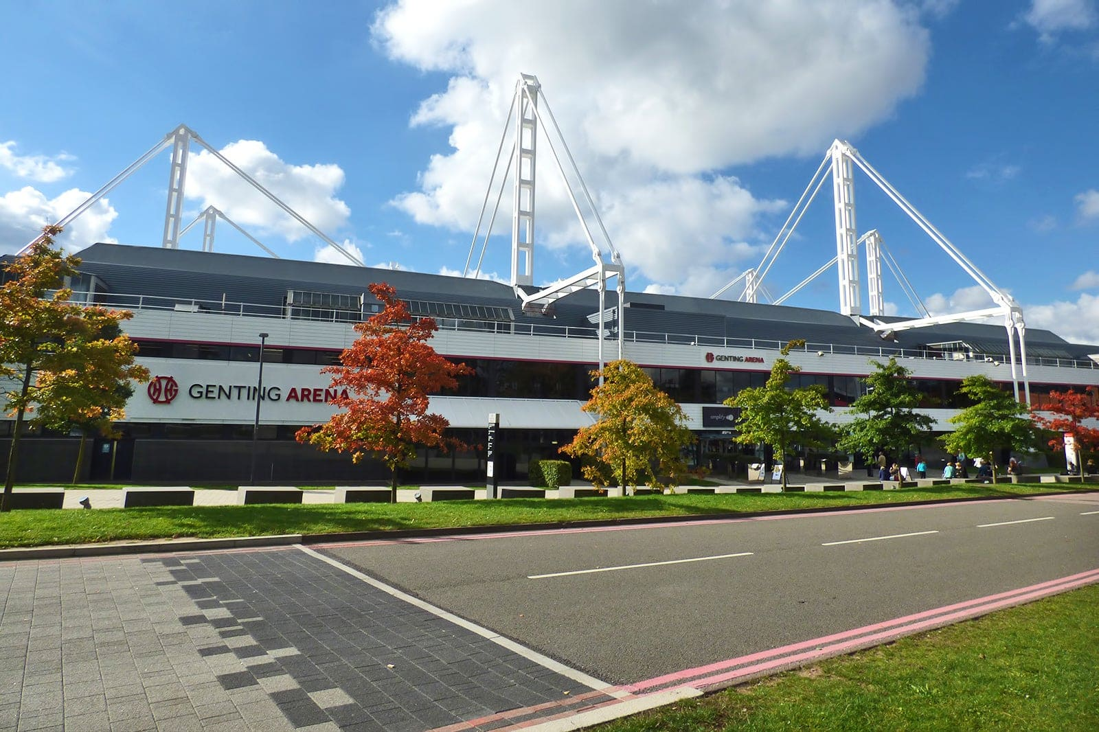 Genting Arena (previously the NEC Arena, then the LG Arena) pictured in October 2016.